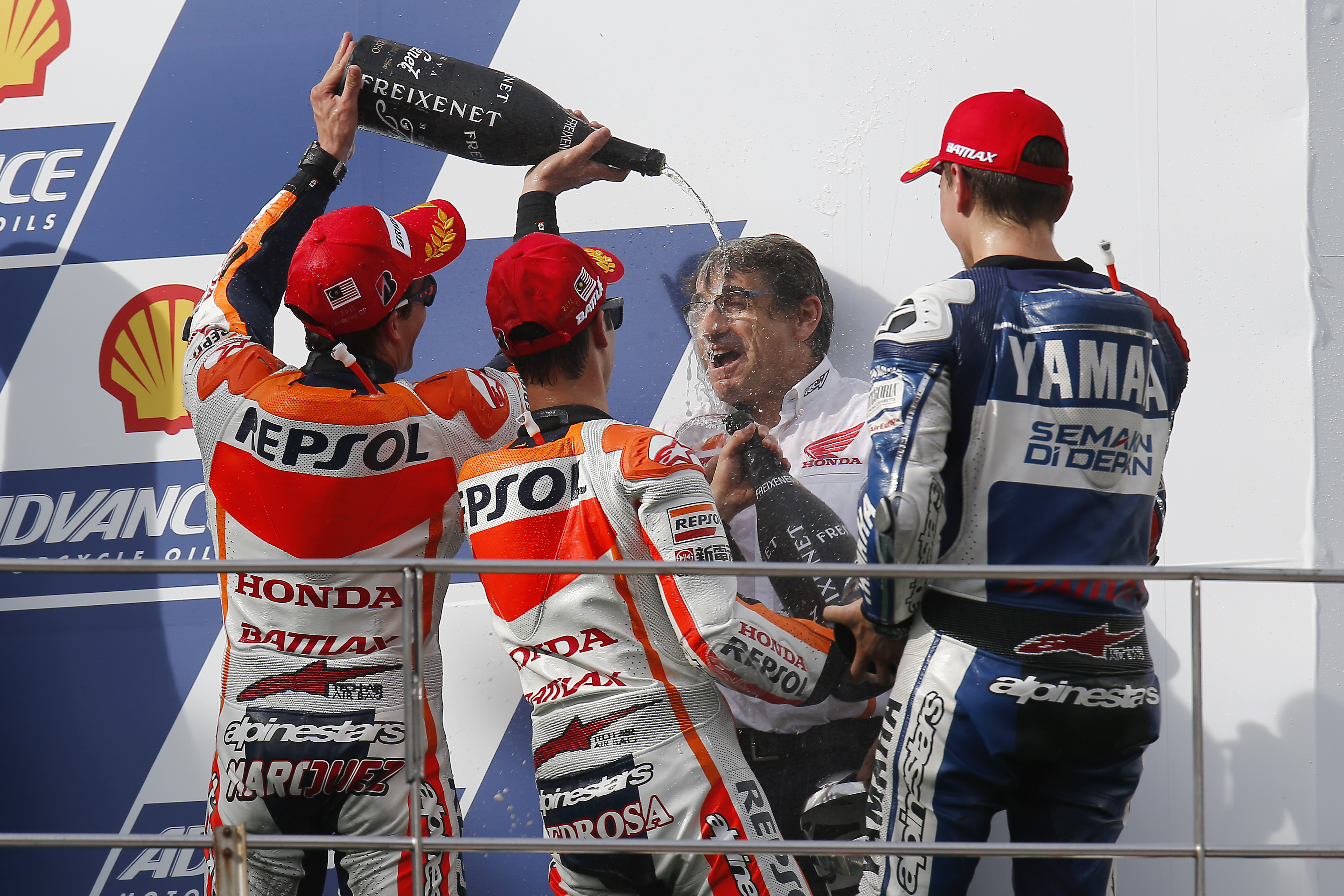 Marc Márquez, Dani Pedrosa and Jorge Lorenzo, listening to the Spanish national anthem on the podium after finishing in second, first and third place at the 2013 Malaysian Grand Prix.